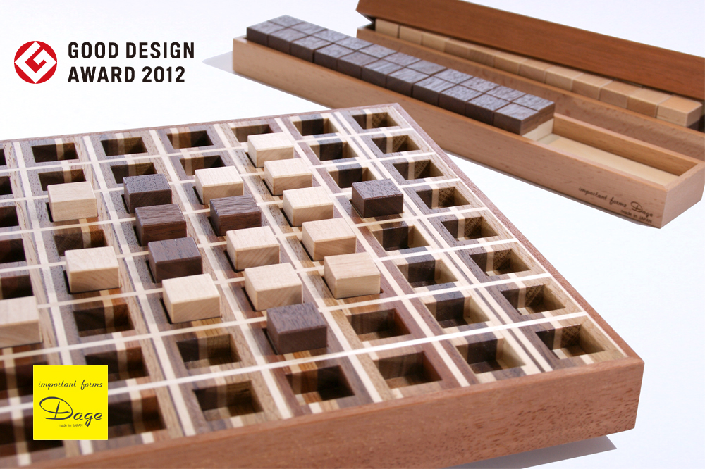 sonypresents